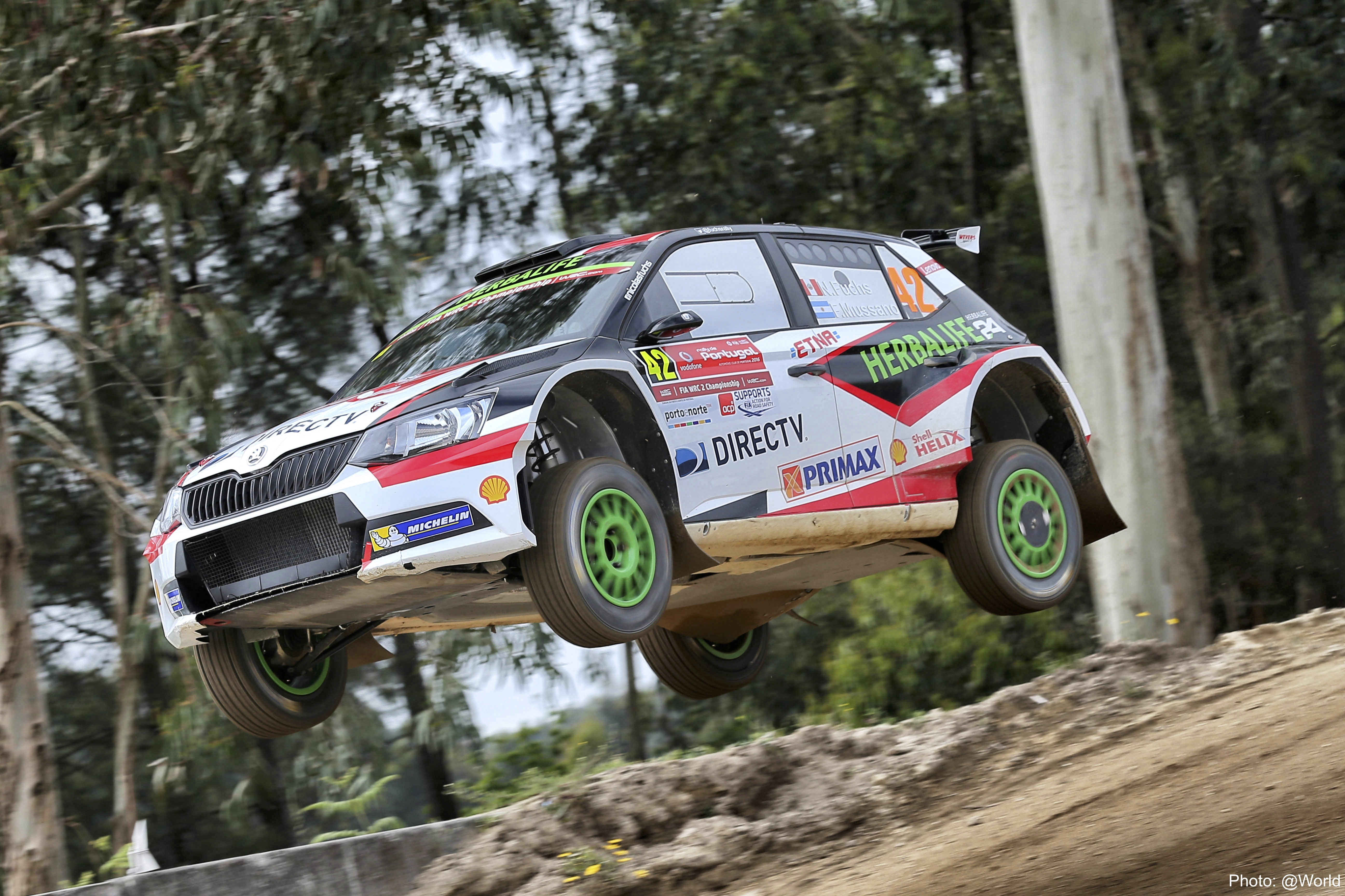 Copyright: @World / FIA WORLD RALLY CHAMPIONSHIP 2016 - WRC PORTUGAL